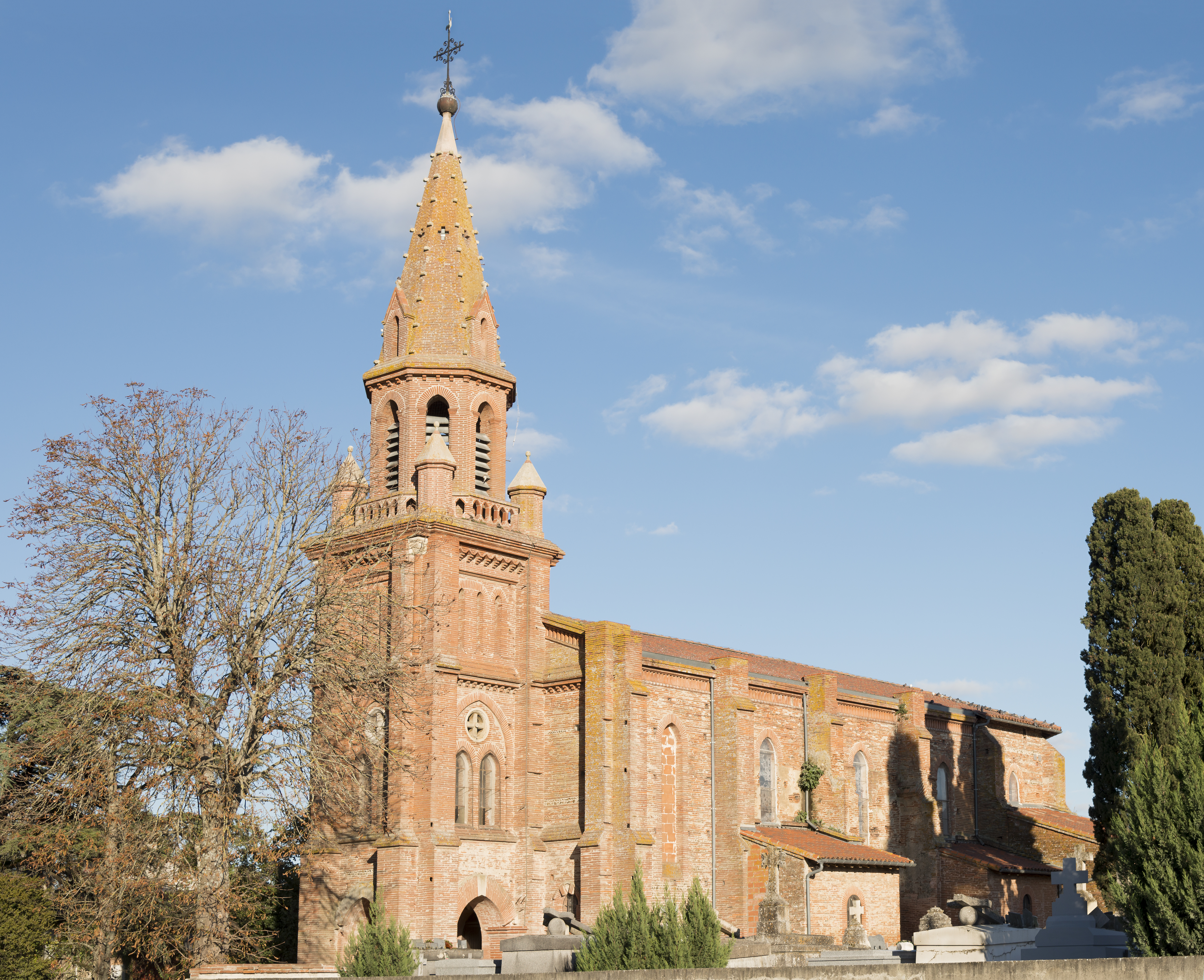 Chuch Saint-Pierre-ès-Lien of Mondonville, Haute-Garonne France - sixteenth century